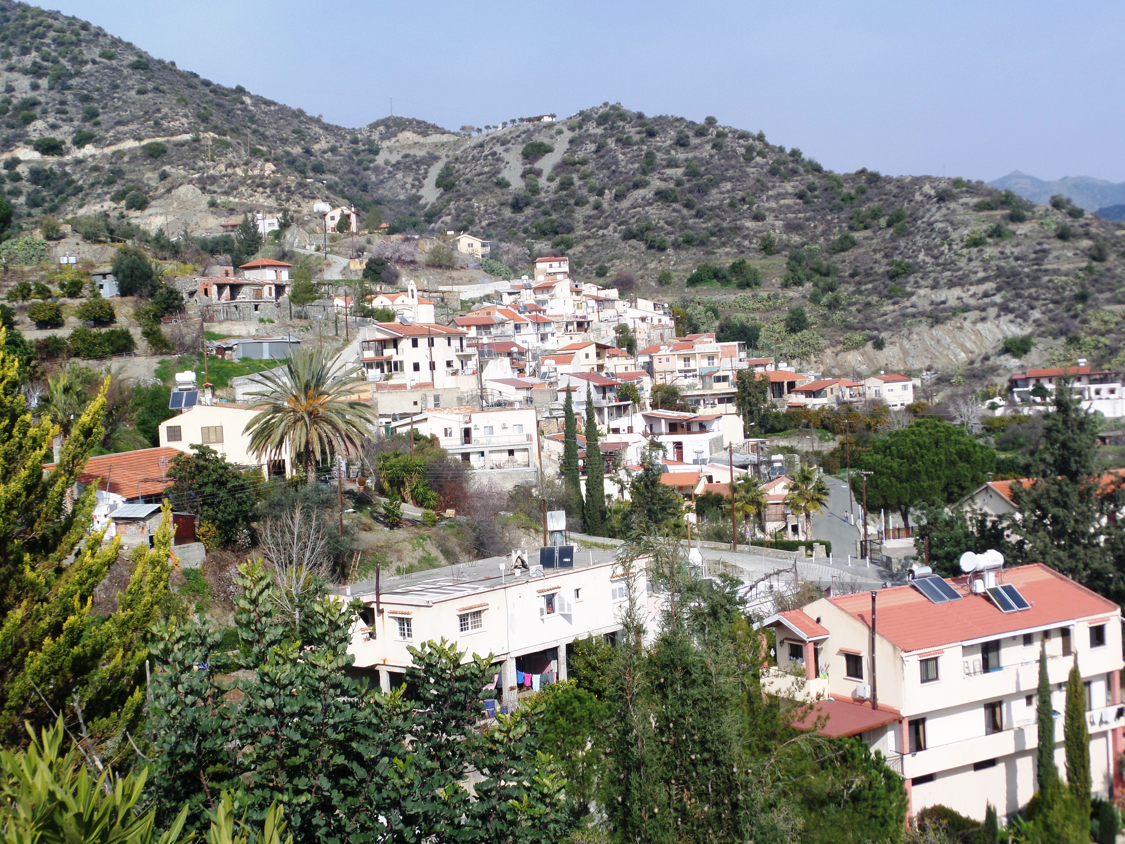 View of Dierona.